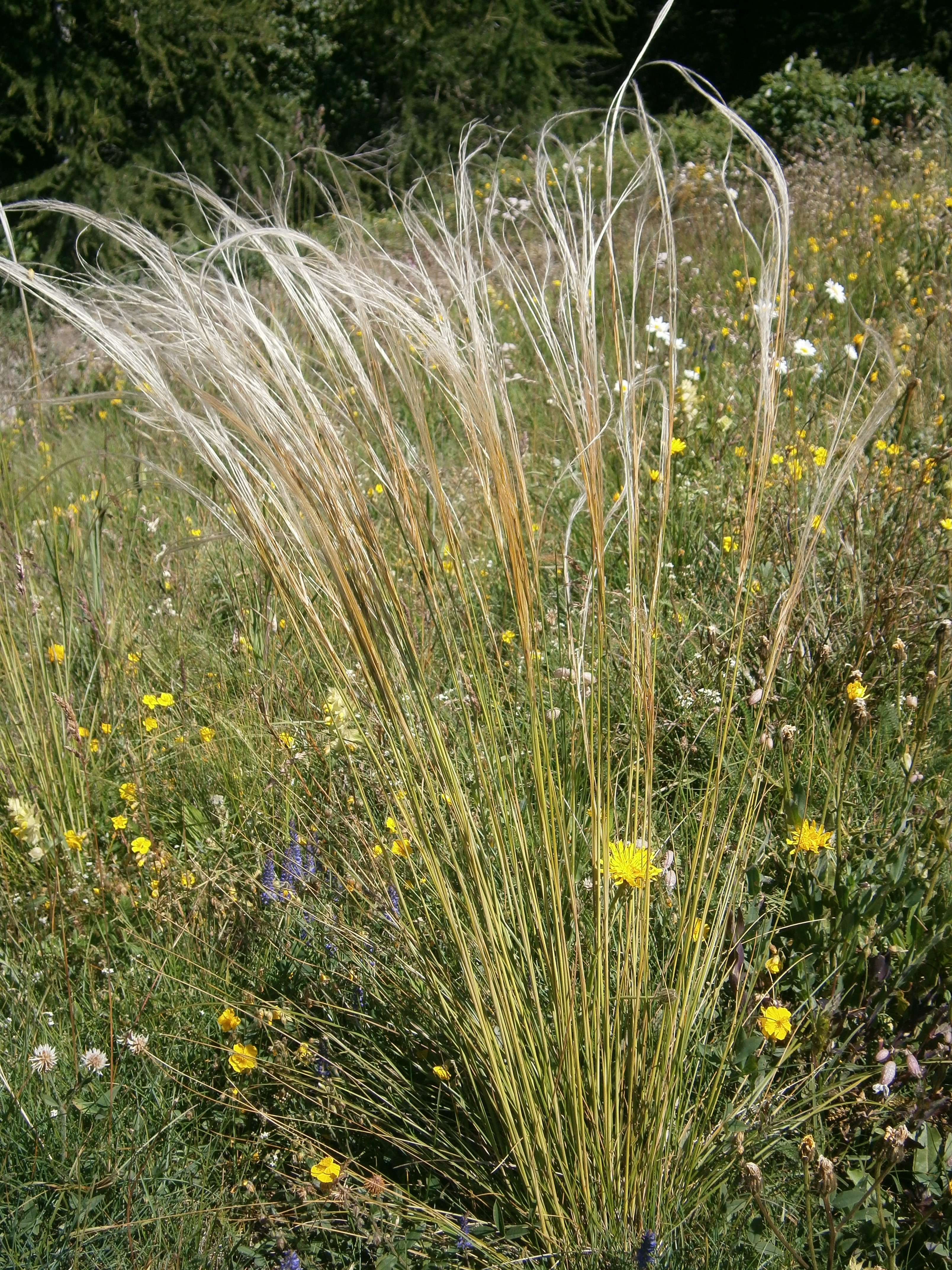 Stipa pennata